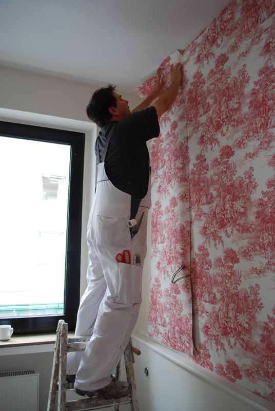 Wallpapering, Cologne